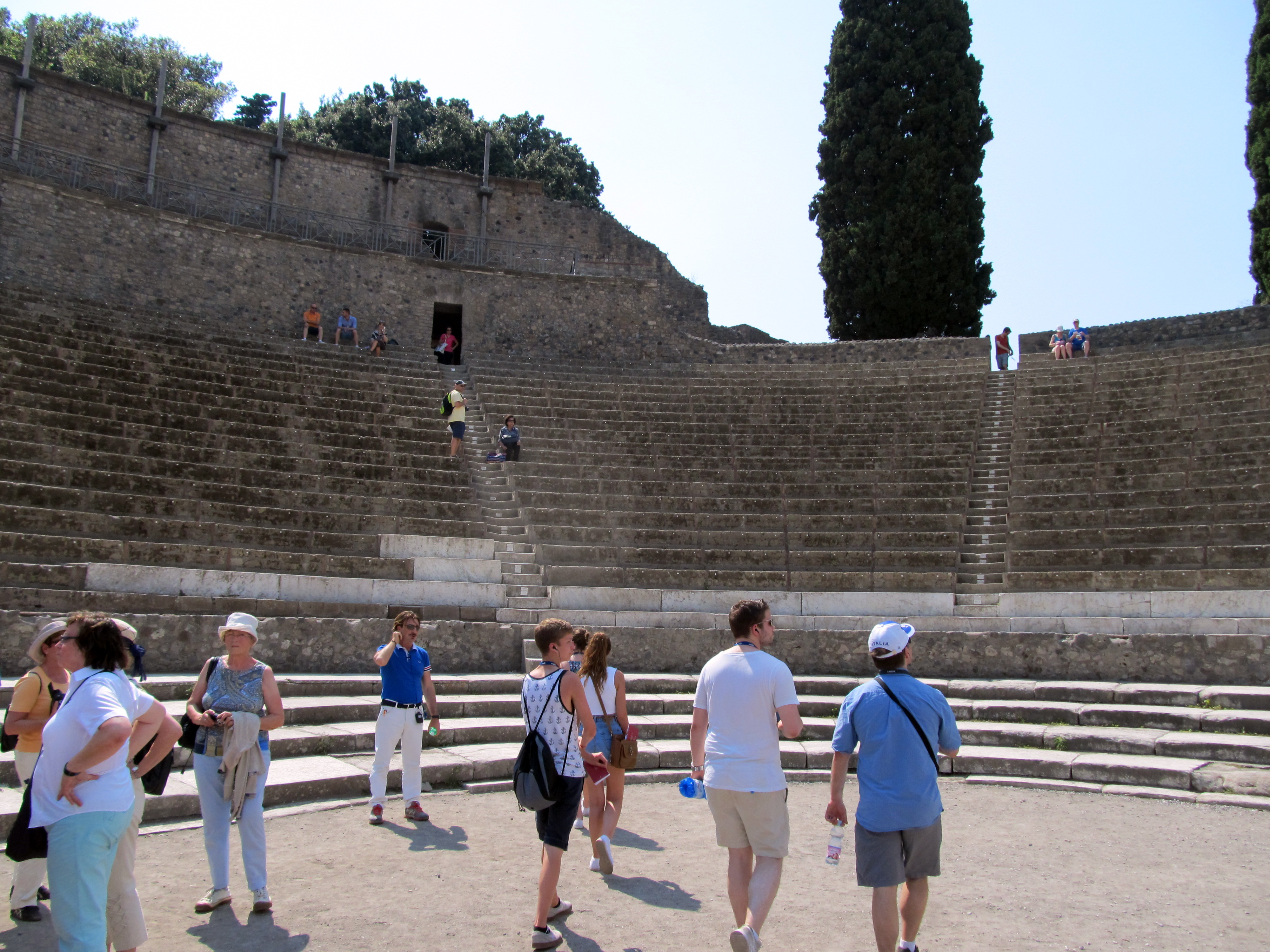 This is the large theatre, first built during the 3rd century BC. It could hold about 5000 patrons.